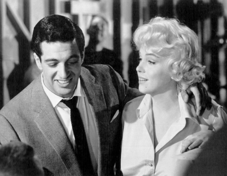 Photo of Marilyn Monroe and Frankie Vaughan from the 1960 film Let's Make Love.